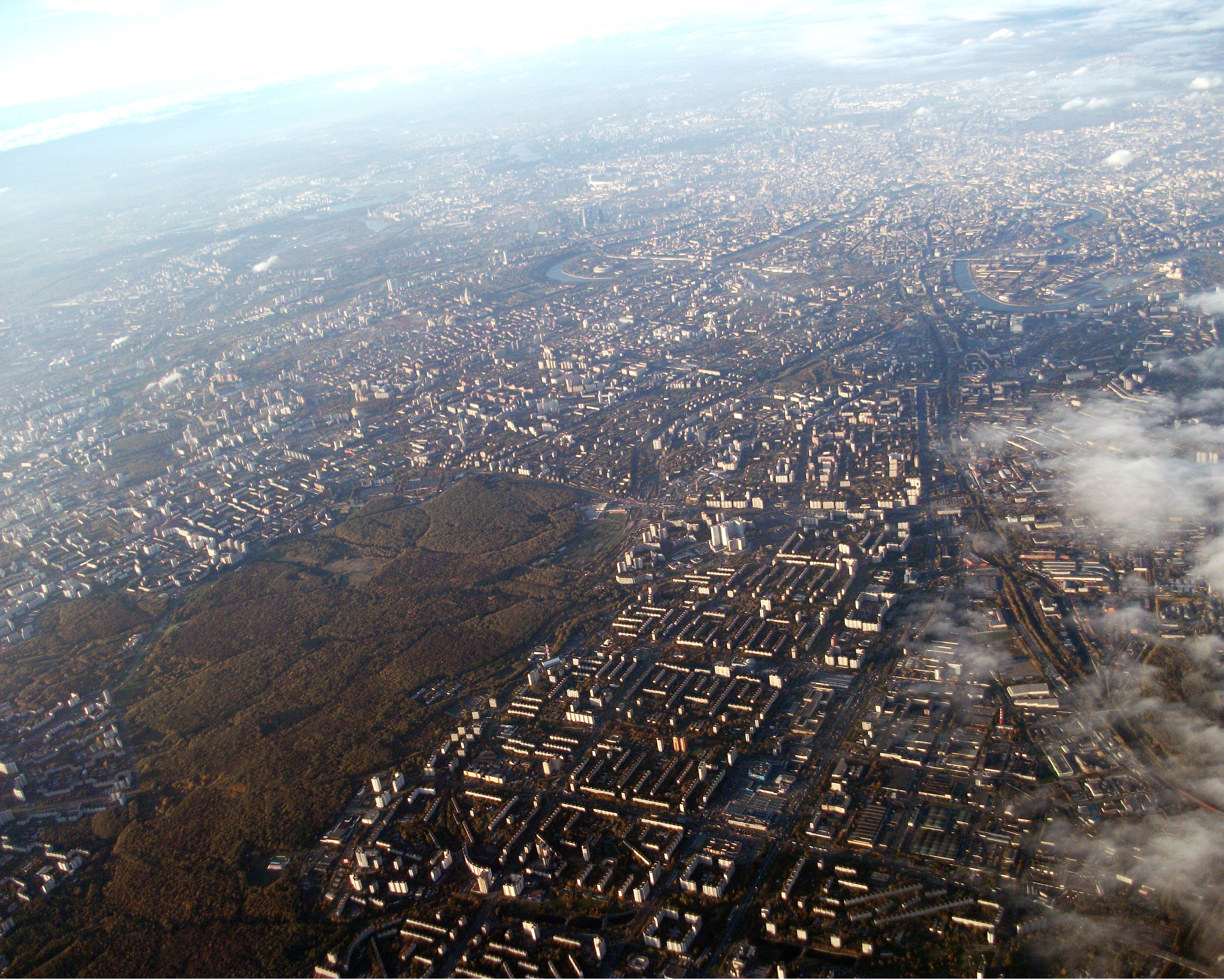 View of the southwest of Moscow from a plane.